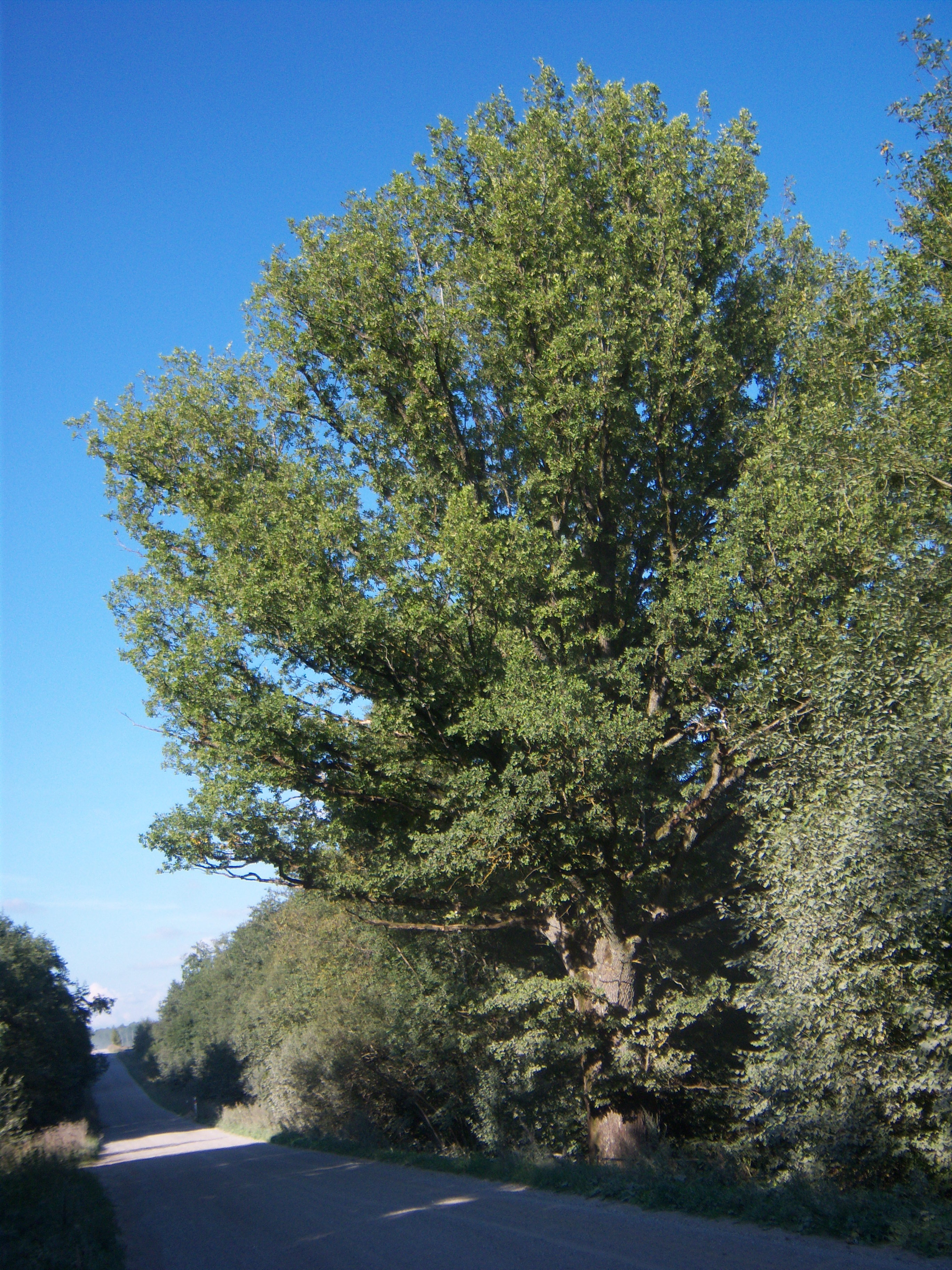 Mikoliškiai oak tree, Kretinga District, Lithuania